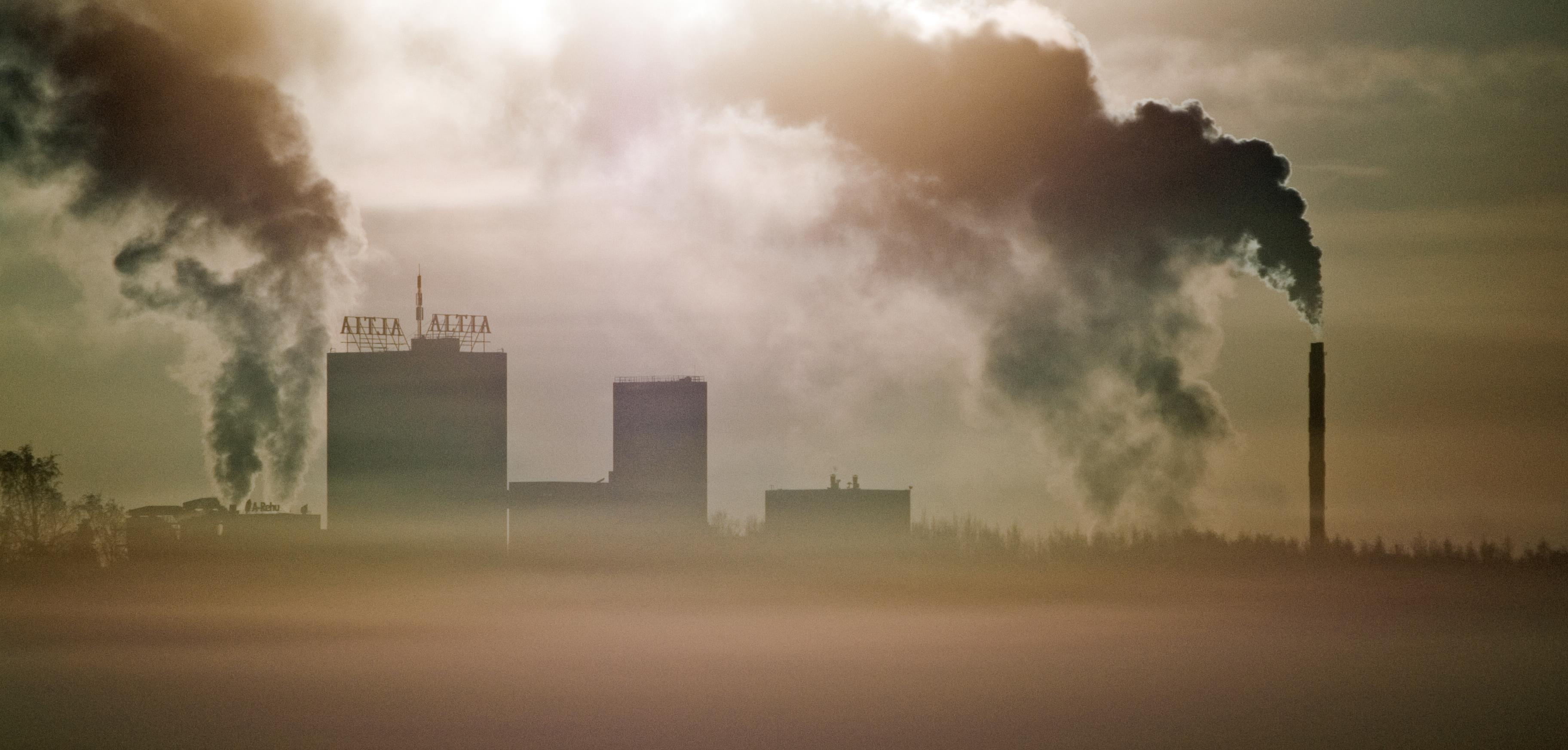 The Koskenkorva alcohol distillery of Altia, state-owned alcohol monopoly in Finland. Located in Koskenkorva, Ilmajoki, Finland.